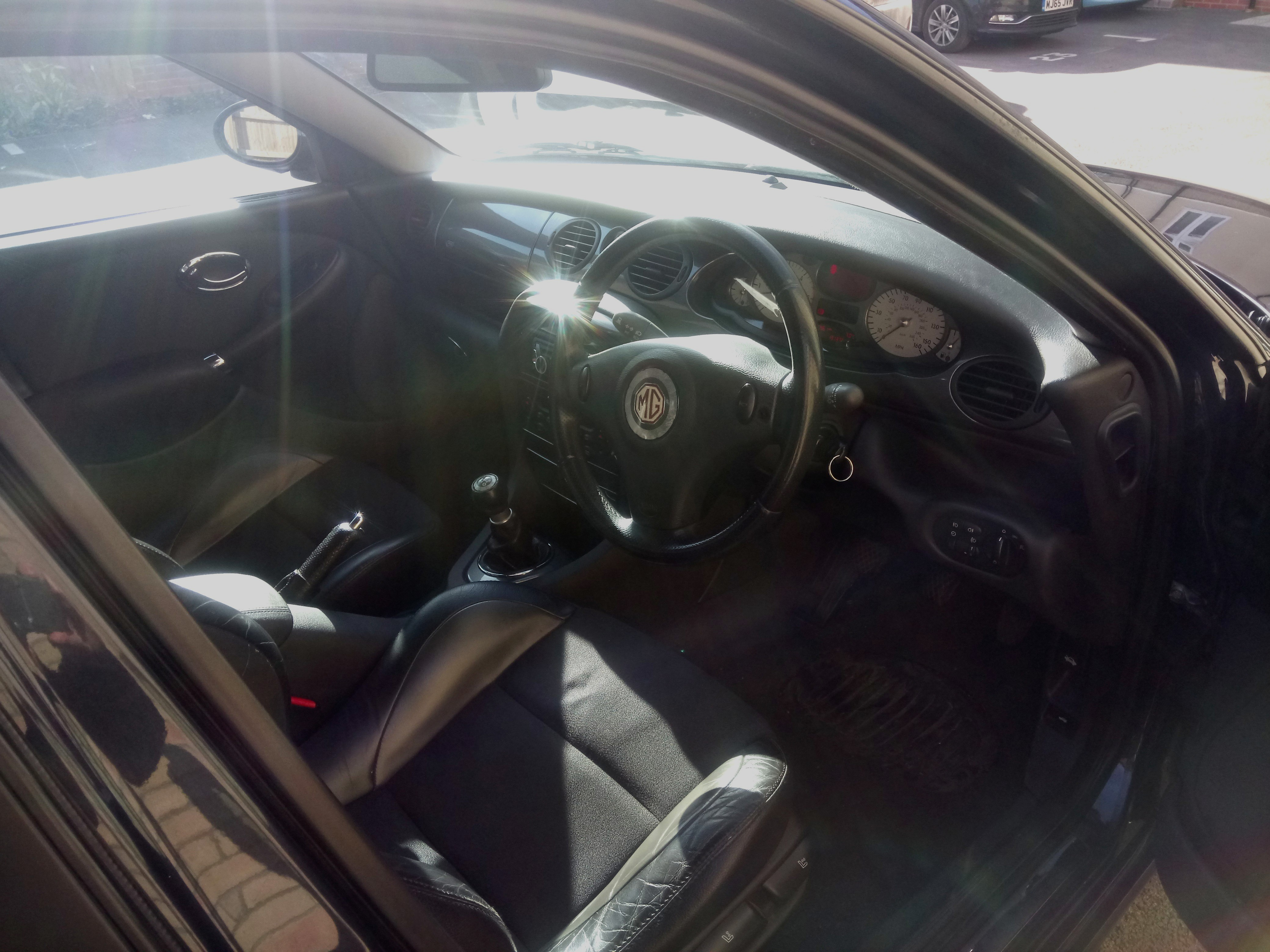 MG ZT+ interior (UK home market)